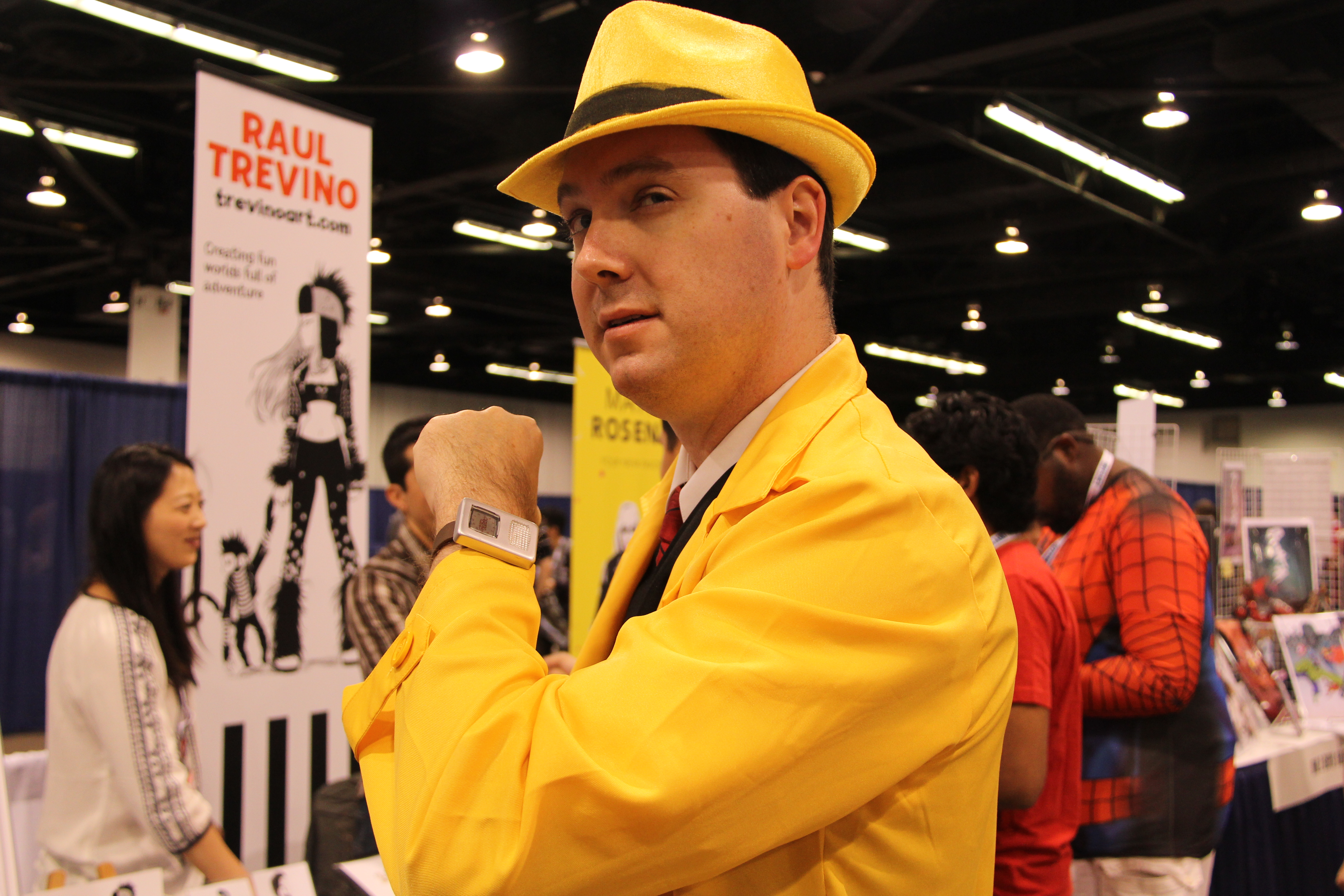 A cosplay of Dick Tracey